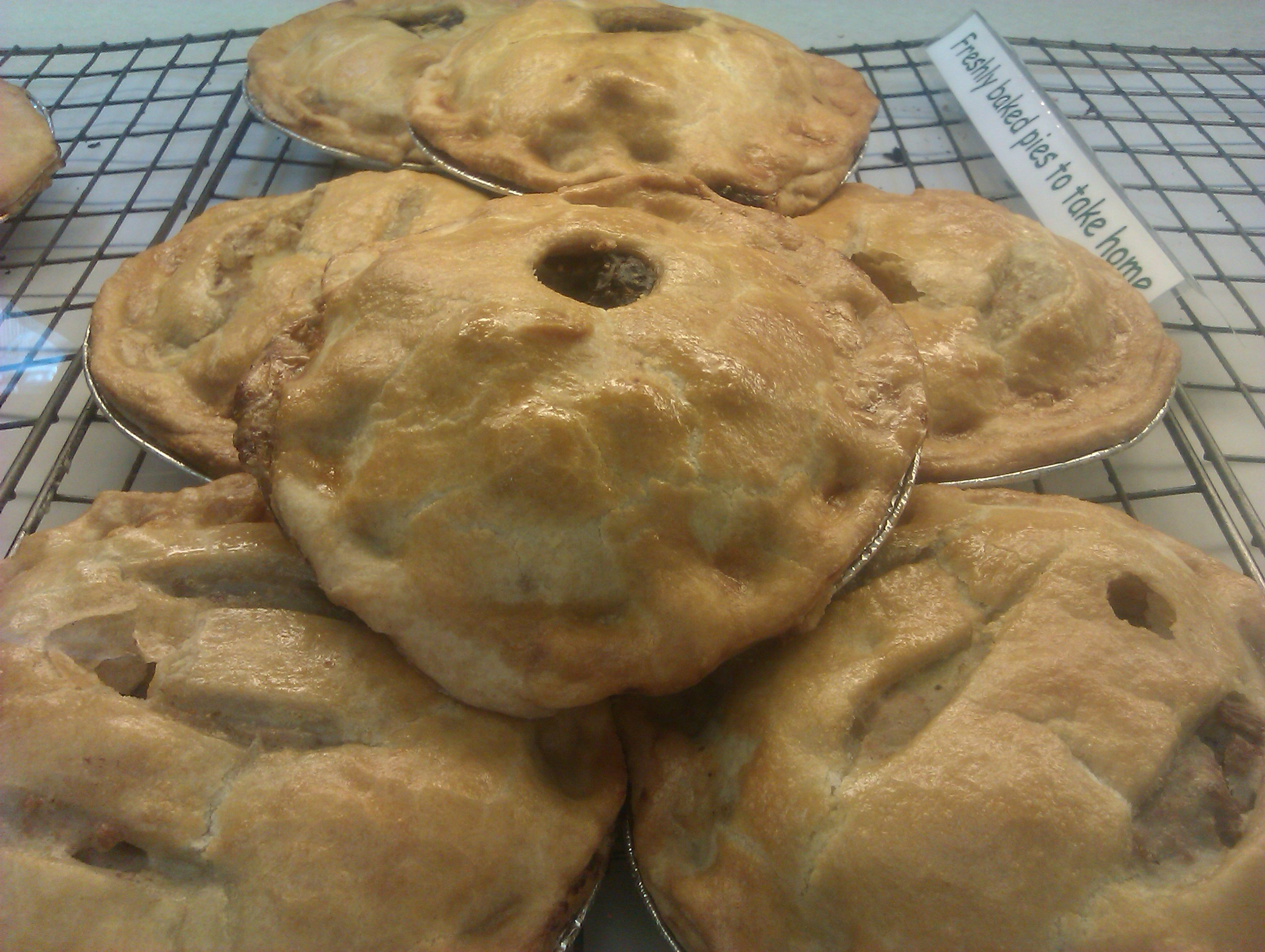 Grandma Pollard's meat and potato pies